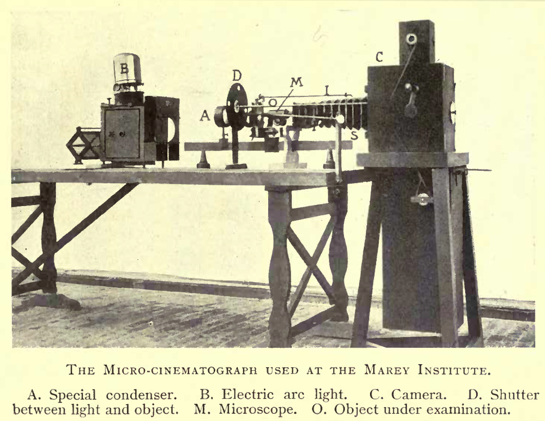 The micro-cinematograph (time-lapse microscope) used at the Étienne-Jules Marey Institute. The image was reproduced from "Practical cinematography and its applications" by F. Talbot, published 1913.